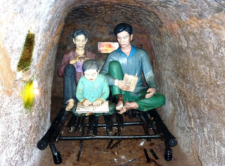 "High School" in Vinh Moc tunnel.